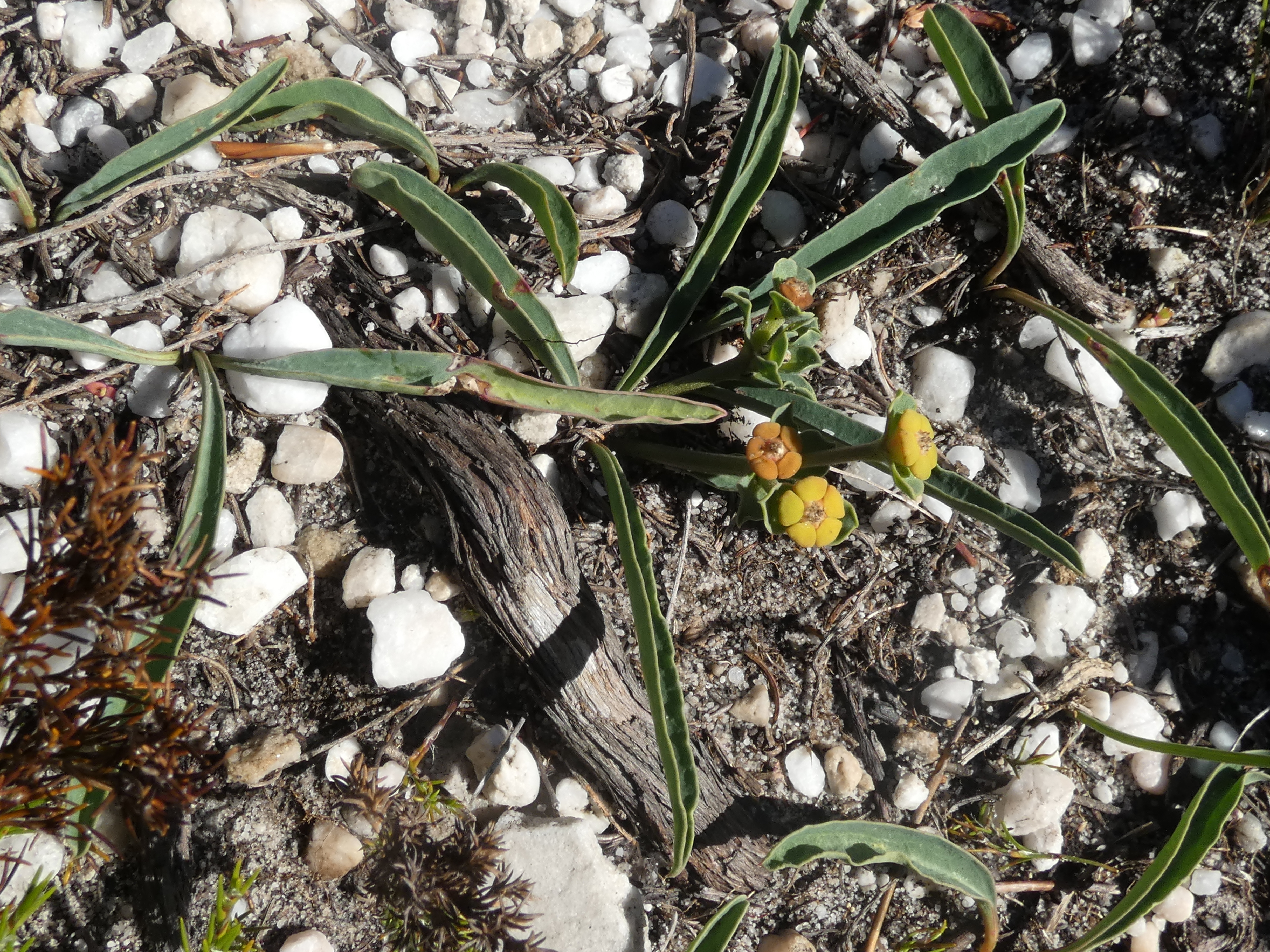 the spurge species Euphorbia tuberosa, photographed at Hangklip, near Pringle Bay, Western Cape, Zuid-Afrika